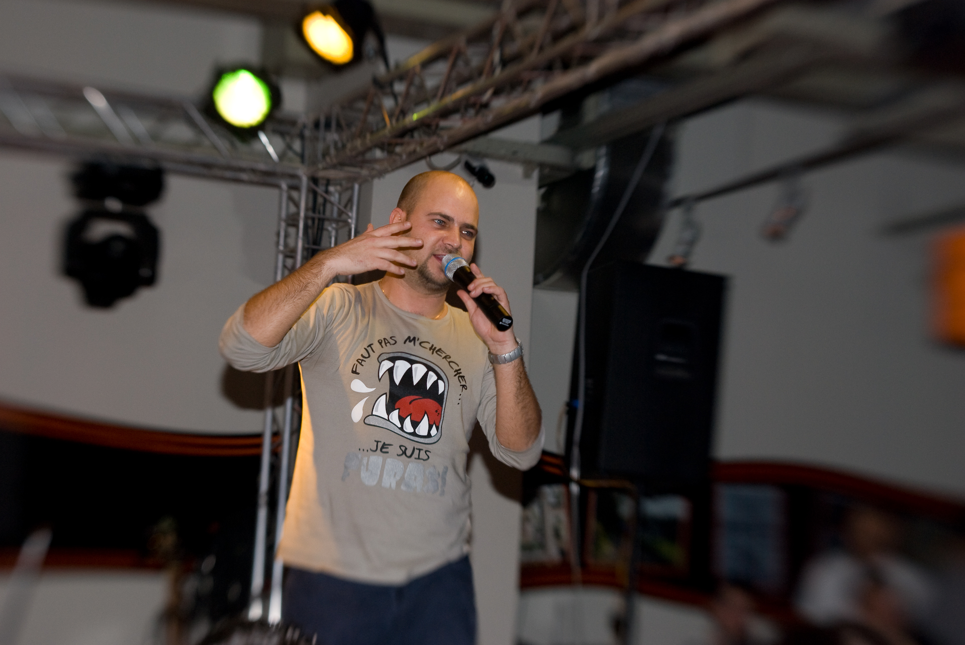 Cosmin Selesi at Lensbaby Composer demo - Bucharest Twestival 2009.